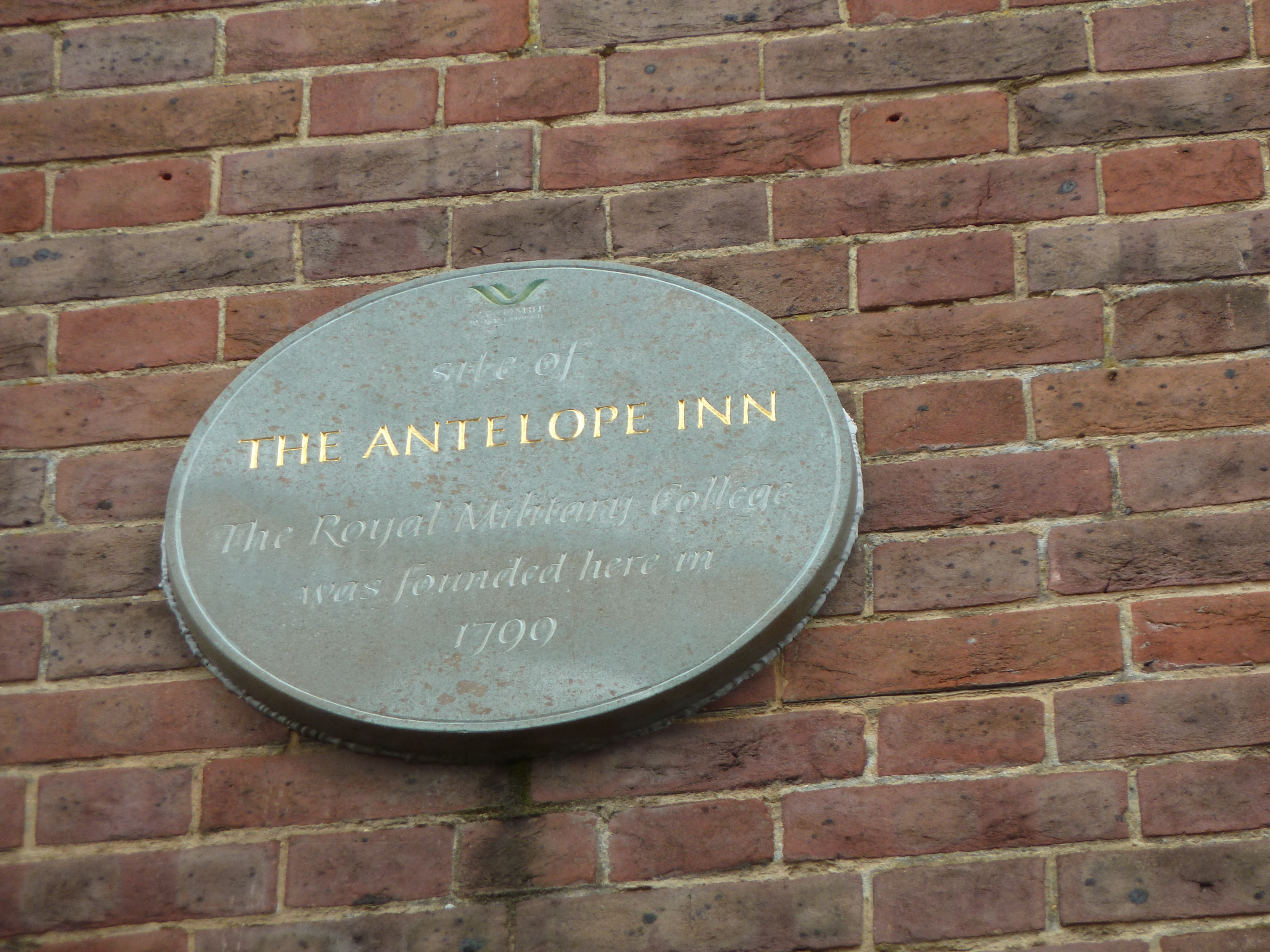 commemorative plaque in High Wycombe